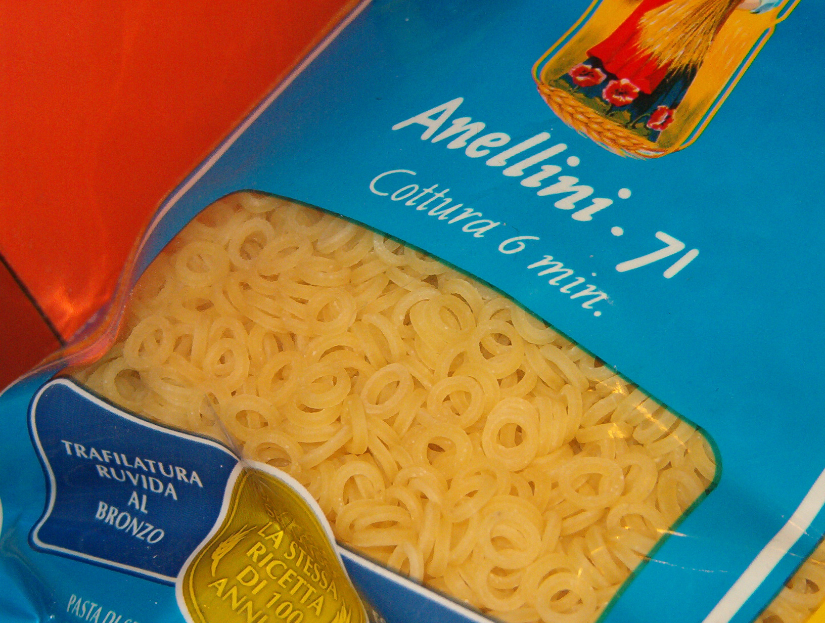 A bag of anellini